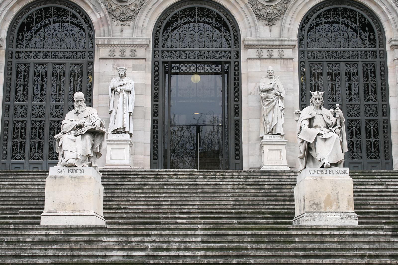 Entrance of the National Library of Spain, in Madrid.